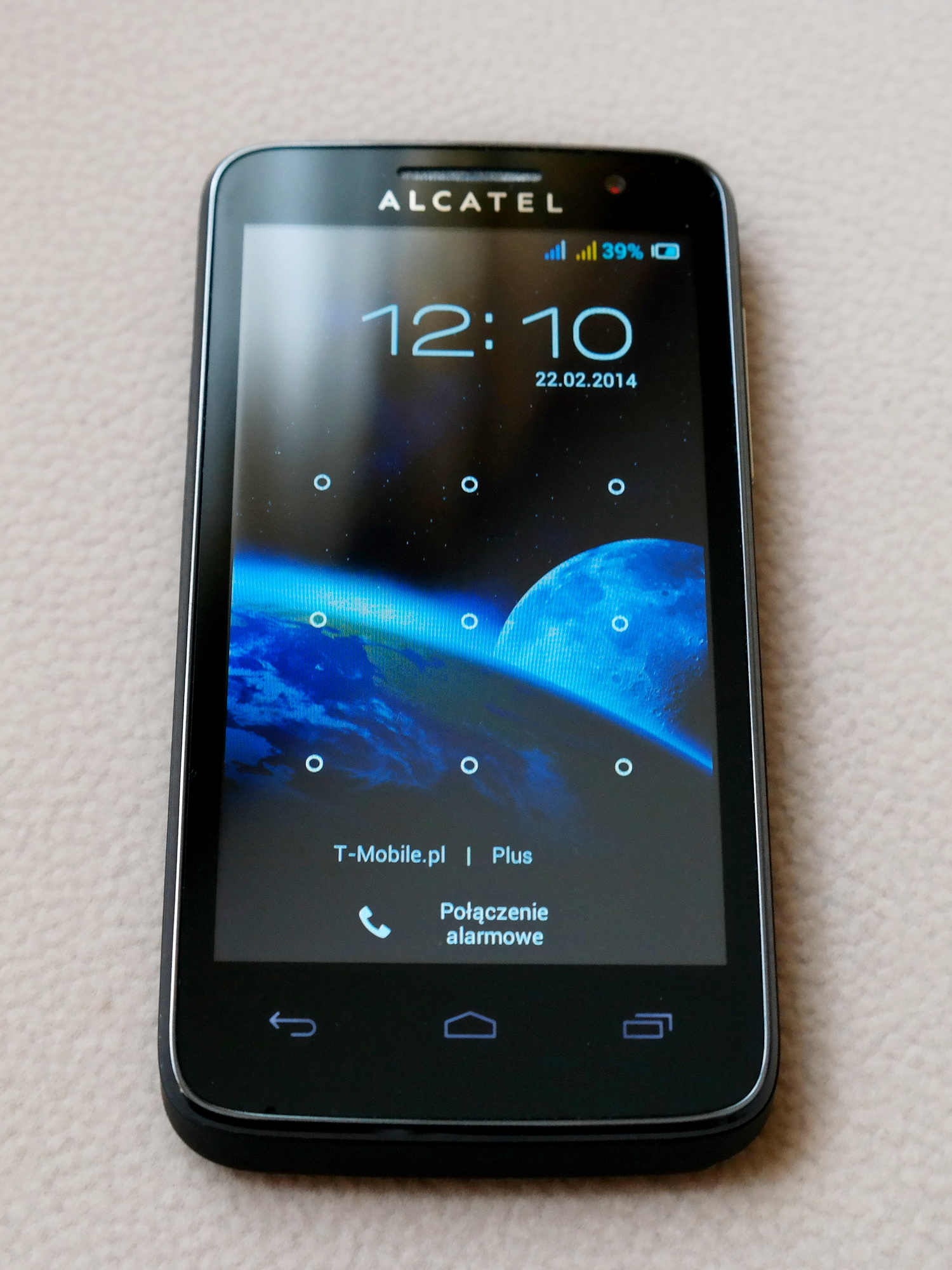 Alcatel One Touch M'Pop 5020D.